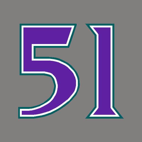 A depiction of the retired jersey of Randy Johnson as seen at Chase Field.